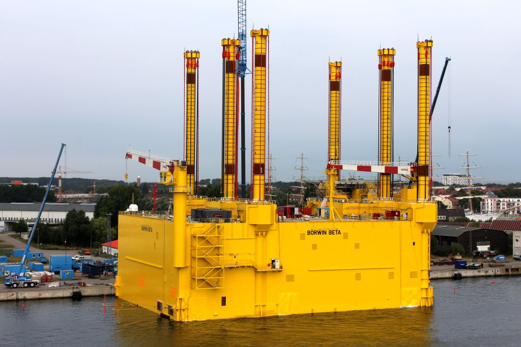 BorWin beta HVDC converter platform (top jackup rig part of the platform, without substructure) at Warnow dockyard Rostock, Germany